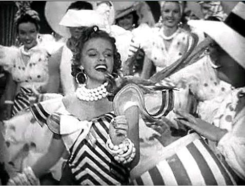 Screenshot of Judy Garland from the trailer for the film Presenting Lily Mars, 1943. This scene remembers her acting as a Ziegfeld Girl in 1941